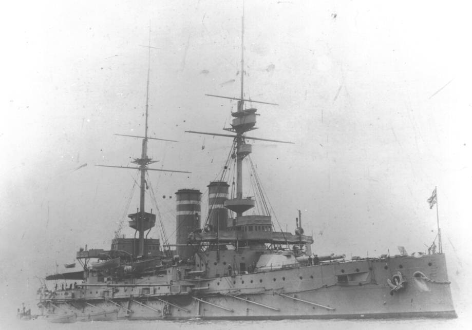 Photograph of British battleship HMS Queen.